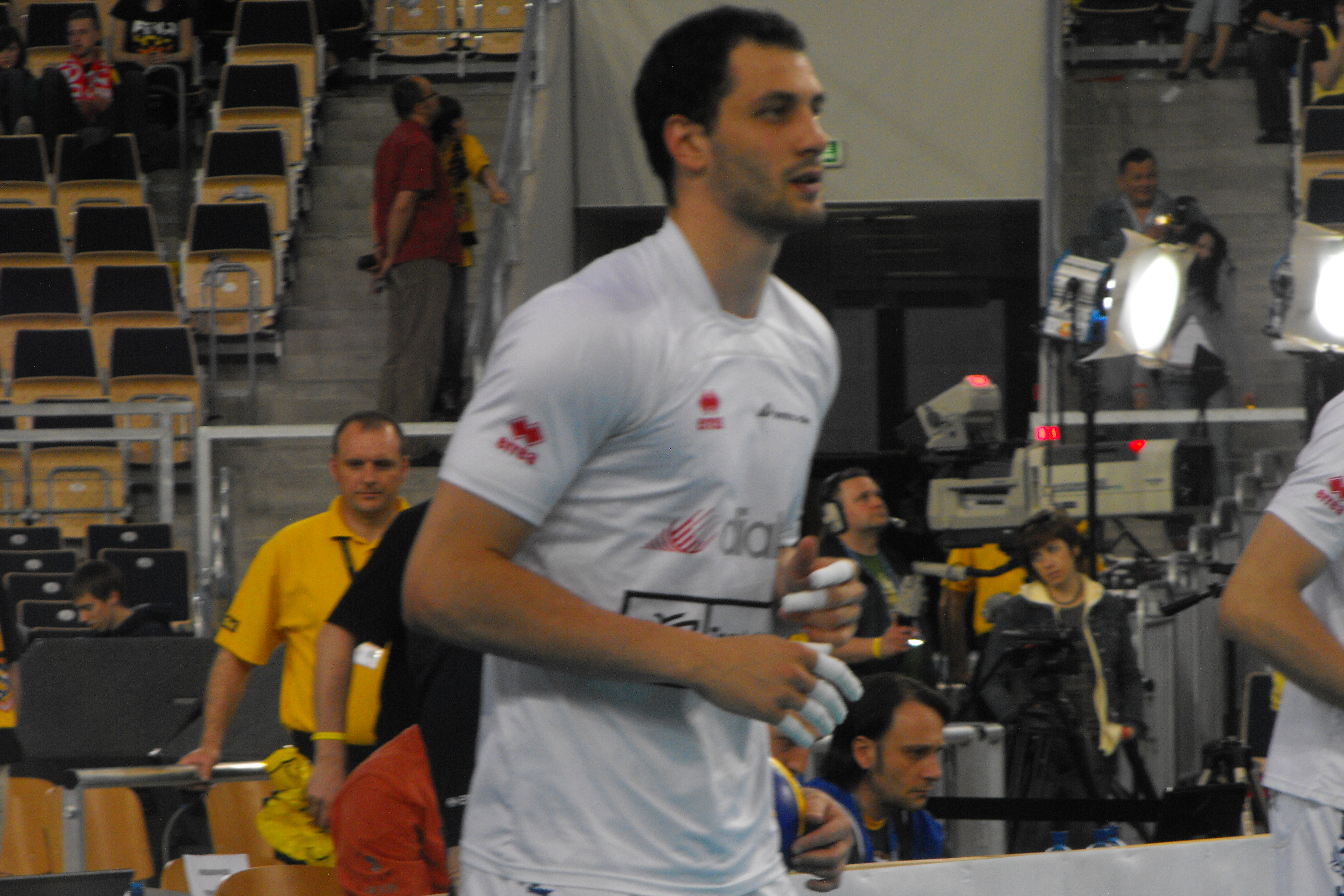 Matey Kaziyski while Final Four Champions League 2010 in Lodz (Atlas Arena).